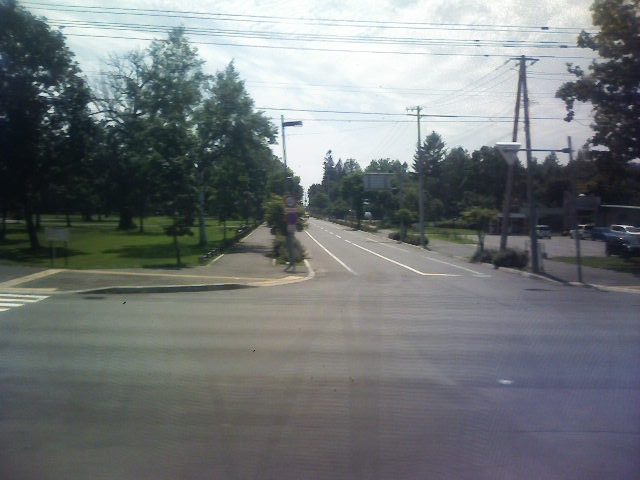 Hokkaido Pref road Route62,Memuro,Hokkaido,Japan